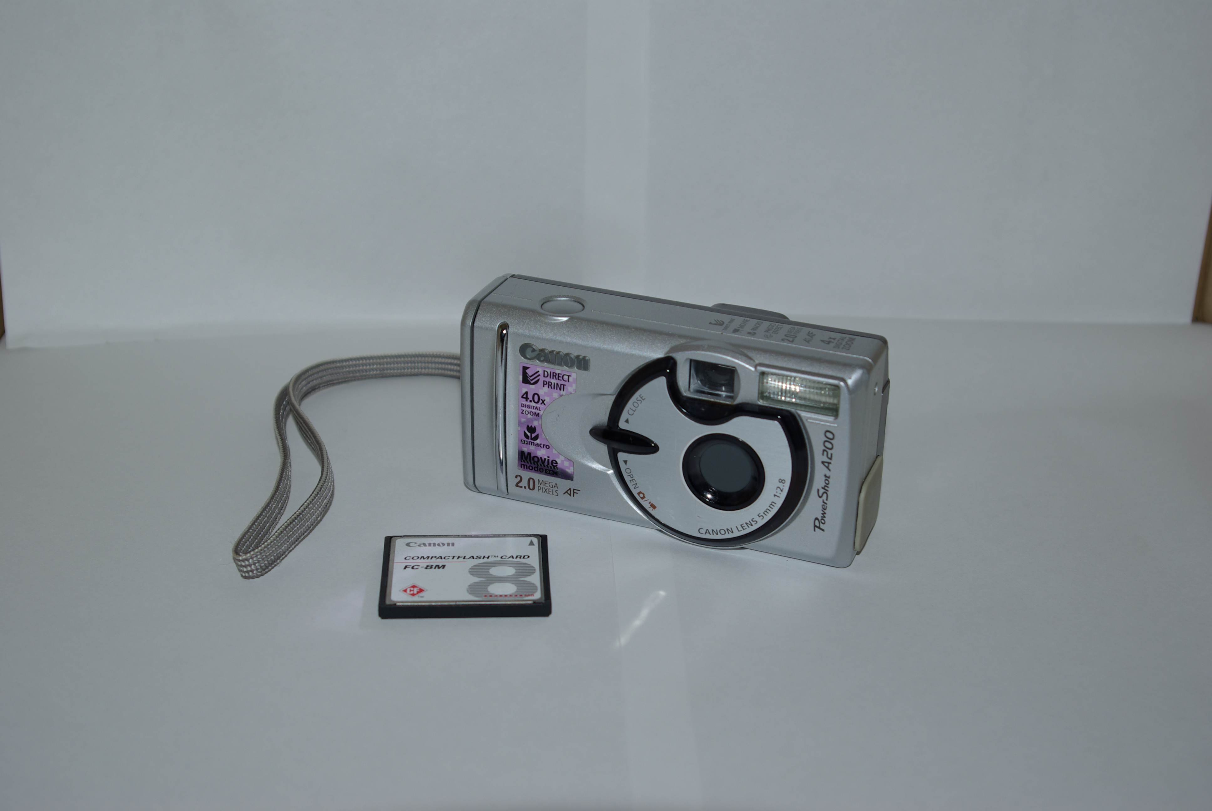 My Canon PowerShot A200 in my very make shift light box, hastily assembled to take advantage of my lovely new Pentax K10D.